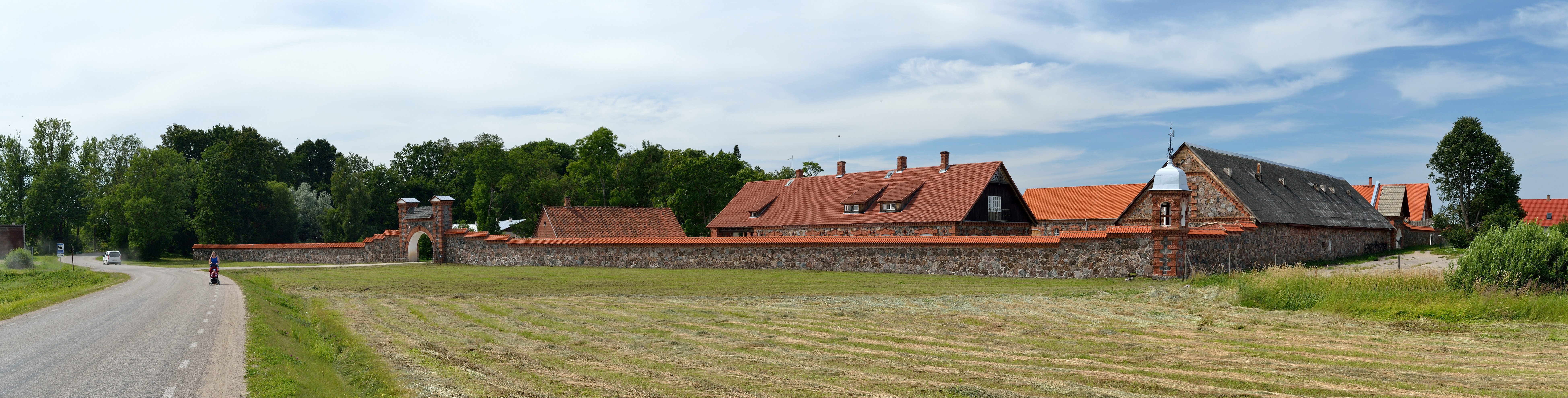 Mooste manor enclosure walls with gates and bell tower